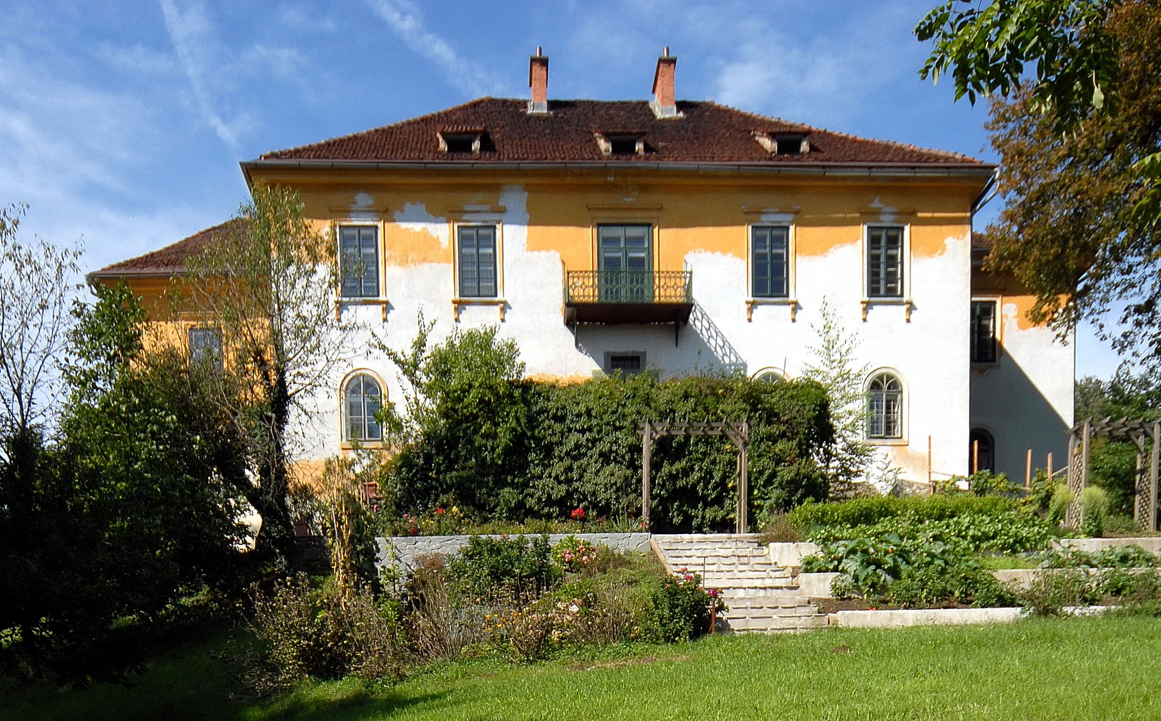 Castle “Zigguln”, Schlossweg #28, in the 12th district "Sankt Martin", the north-west of Klagenfurt, capital of the state Carinthia, Austria